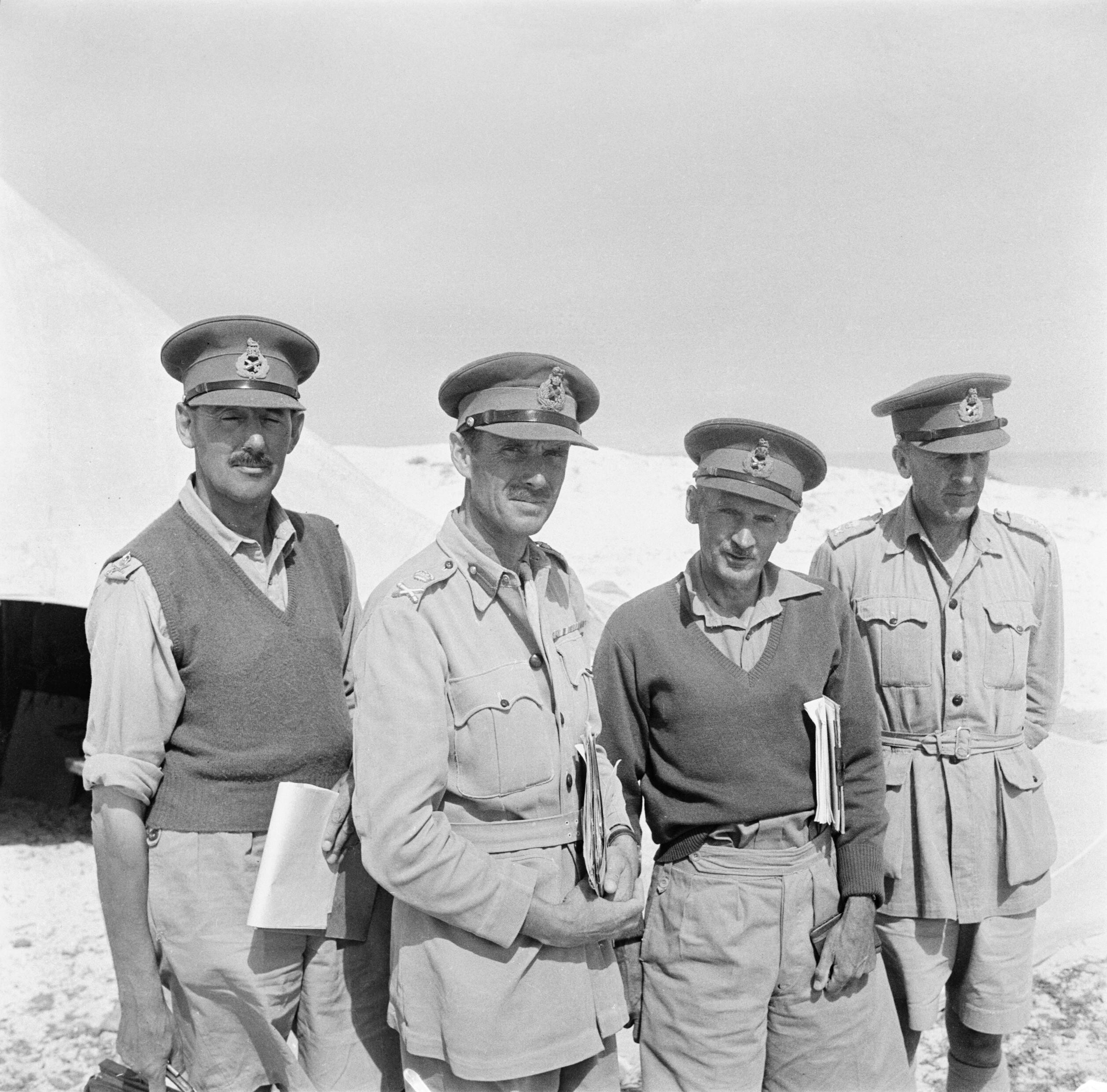 British Generals in the Desert General Montgomery with his three Corps Commanders, left to right : Lieut. General Leese, G.O.C. 30 Corps. Lieut. General Lumsden, G.O.C. 10 Corps. General Montgomery. Lieut. General Horrocks, G.O.C. 13 Corps.